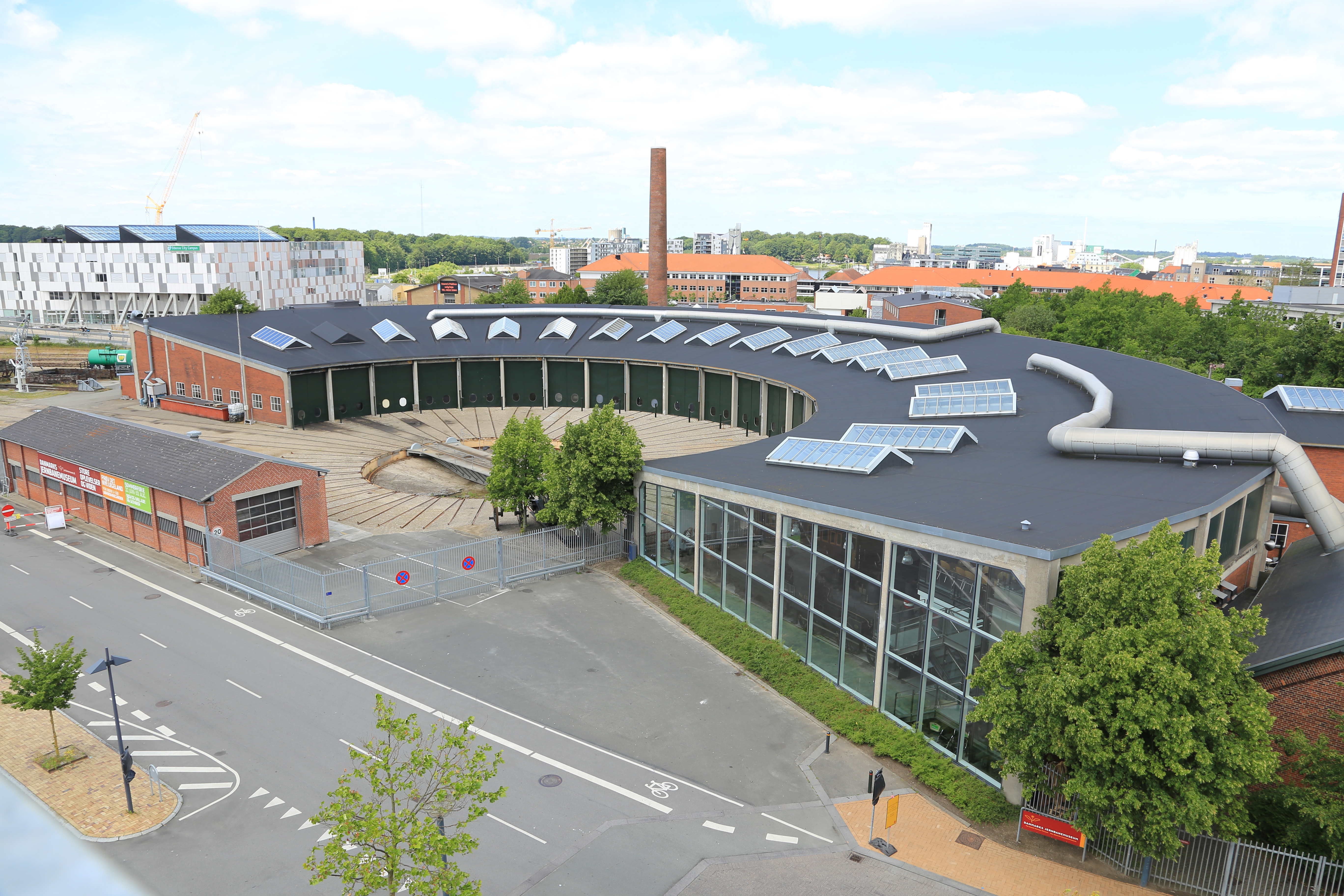 Danish Railway Museum's roundhouse, which is part of the museum buildings.